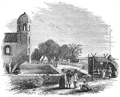 Church of Pandacan - Vicinity of Manila, early 1800s. Original caption: Église de Pandacan—Environs de Manille. From Aventures d'un Gentilhomme Breton aux iles Philippines by Paul de la Gironiere, published in 1855.